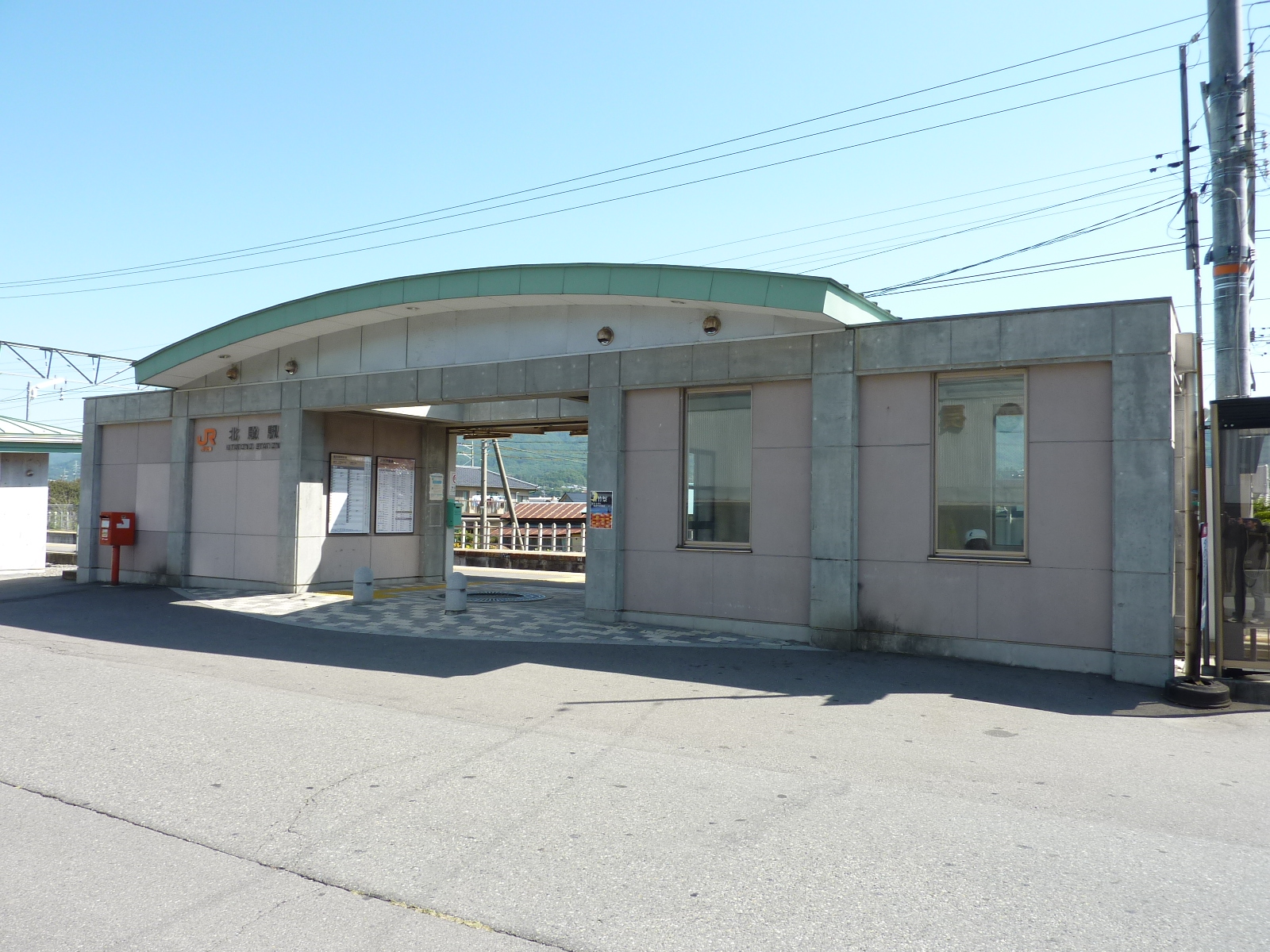 Kitatono Station on JR Iida Line. (3718,Kitatono,Minamiminowa-mura,Kamiina-gun,Nagano-ken,JAPAN)